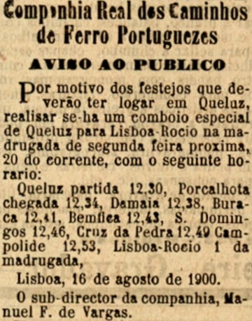 Public warning of Companhia Real dos Caminhos de Ferro Portugueses (Royal Company of Portuguese Railways), about a special train from Queluz to Lisboa - Rossio, due to festivities in that town. This image was published on the Diario Illustrado newspaper No. 9858, of 19th August 1900, and scanned by the Biblioteca Nacional de Portugal.